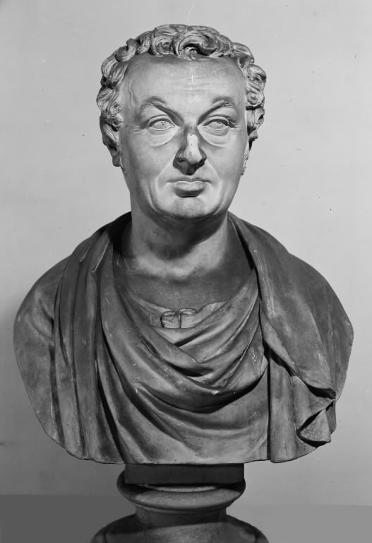 H.W. Bissen (1798-1868), Bankier J. Hambro, 1853